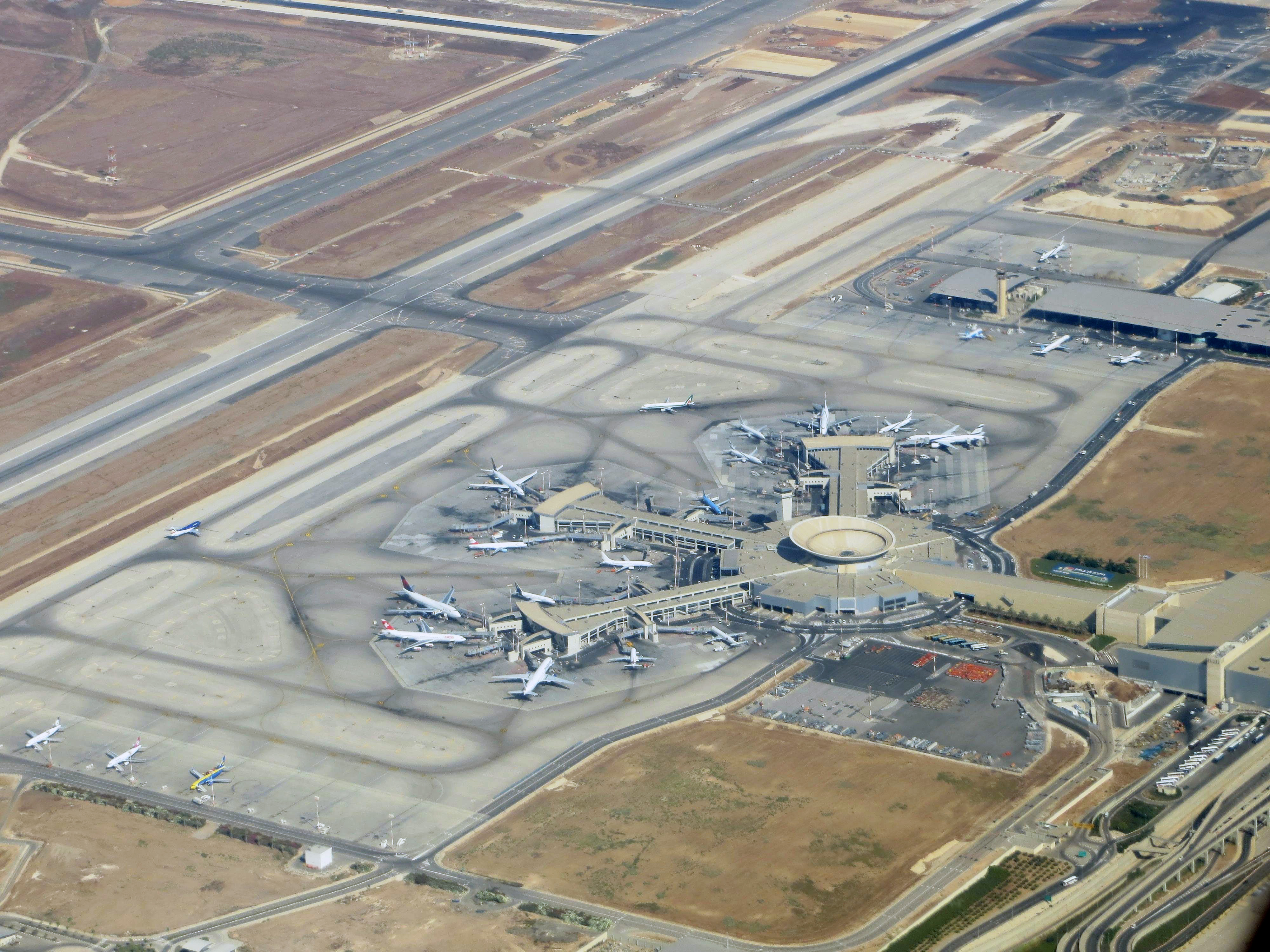 Overflying Ben Gurion Airport